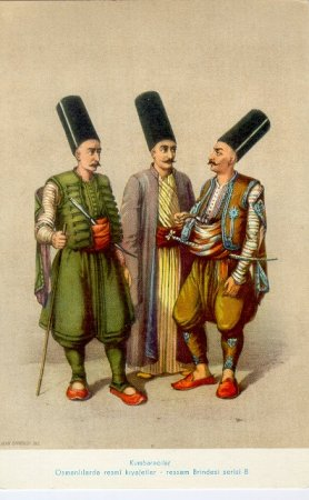 Ottoman humbaracis (bombadiers) by Giovanni Jean Brindesi